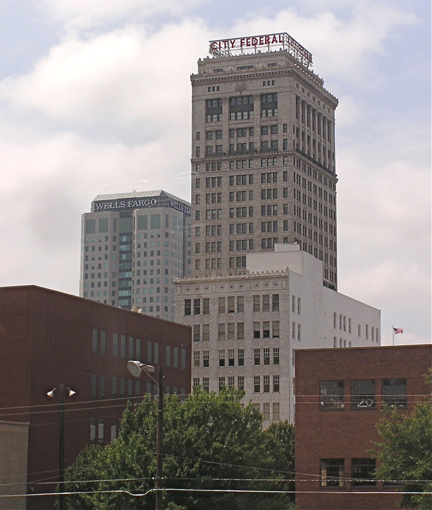 City Federal Building in Birmingham, Alabama, taken July 20, 2012.